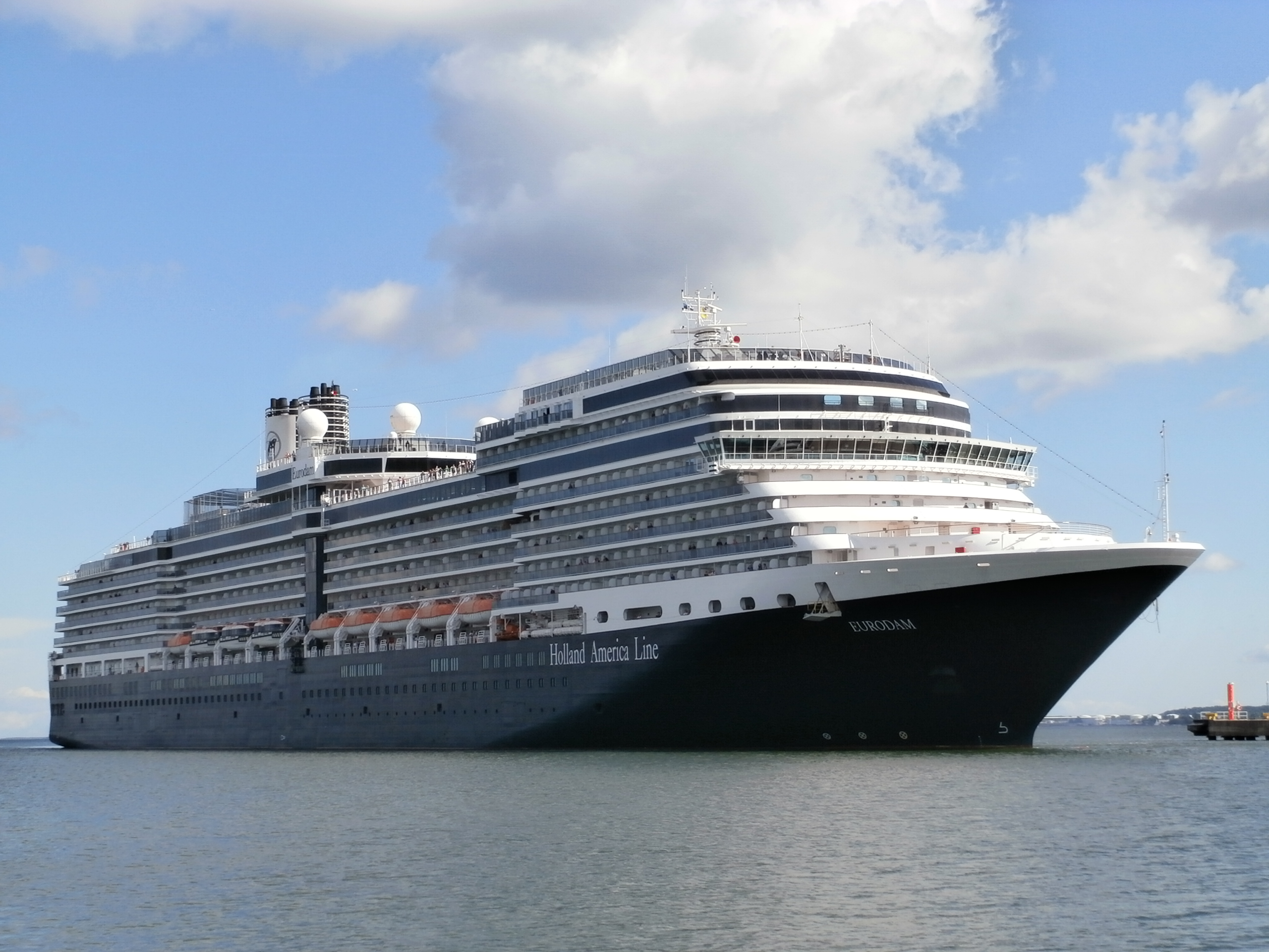 Cruise ship Eurodam arriving Tallinn 2 July 2013